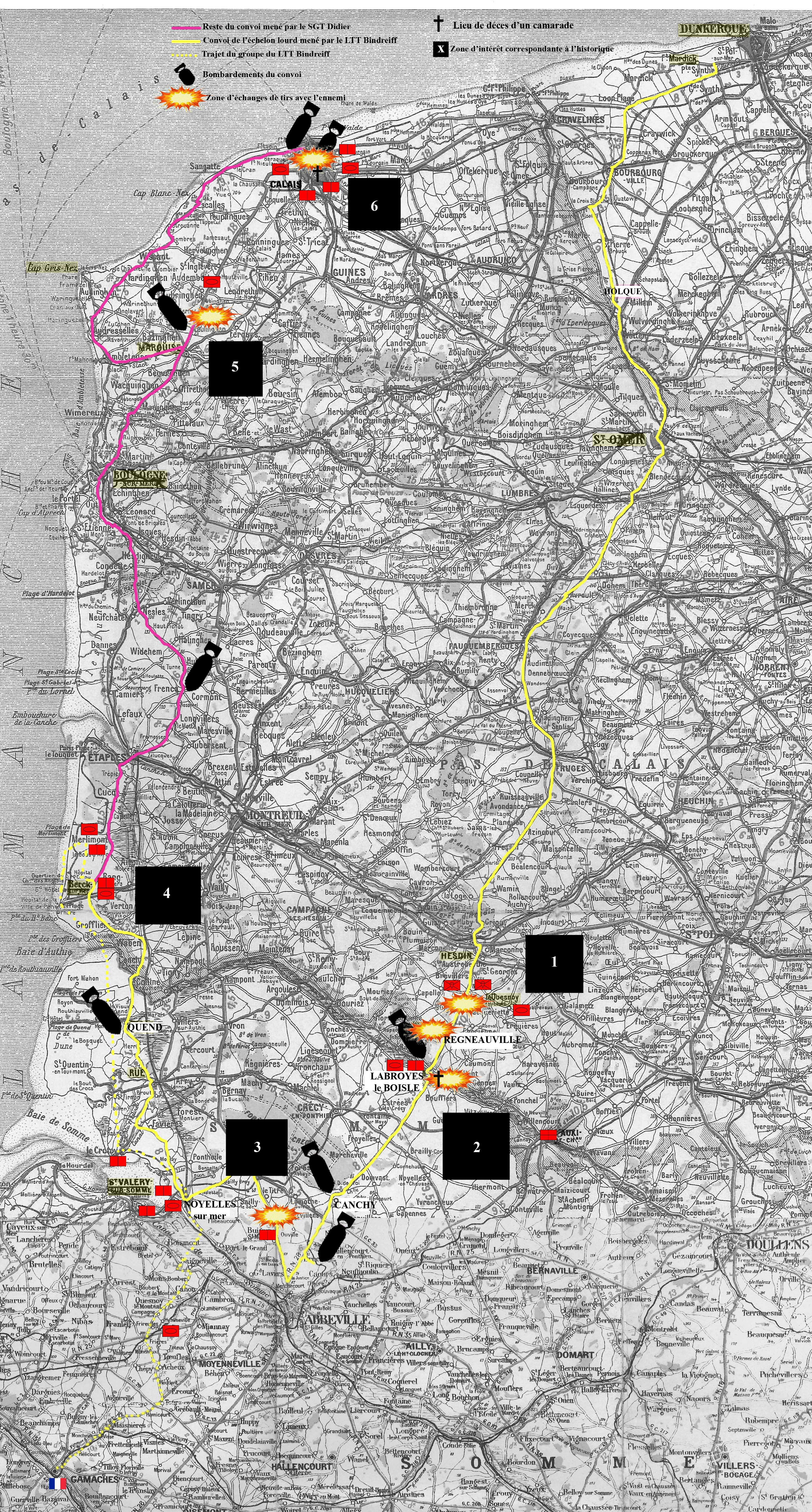 This map shows the movement of the french détachment of the 4th Wing in May 1940